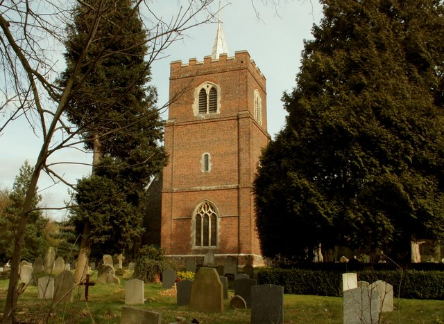 St. Mary the Virgin church, Stansted Mountfitchet, Essex. The tower of this church was built in 1692. Although most of the rest of the church was built in 1888, there are traces of Norman work inside. The church stands in a very rural setting, some distance from the town.